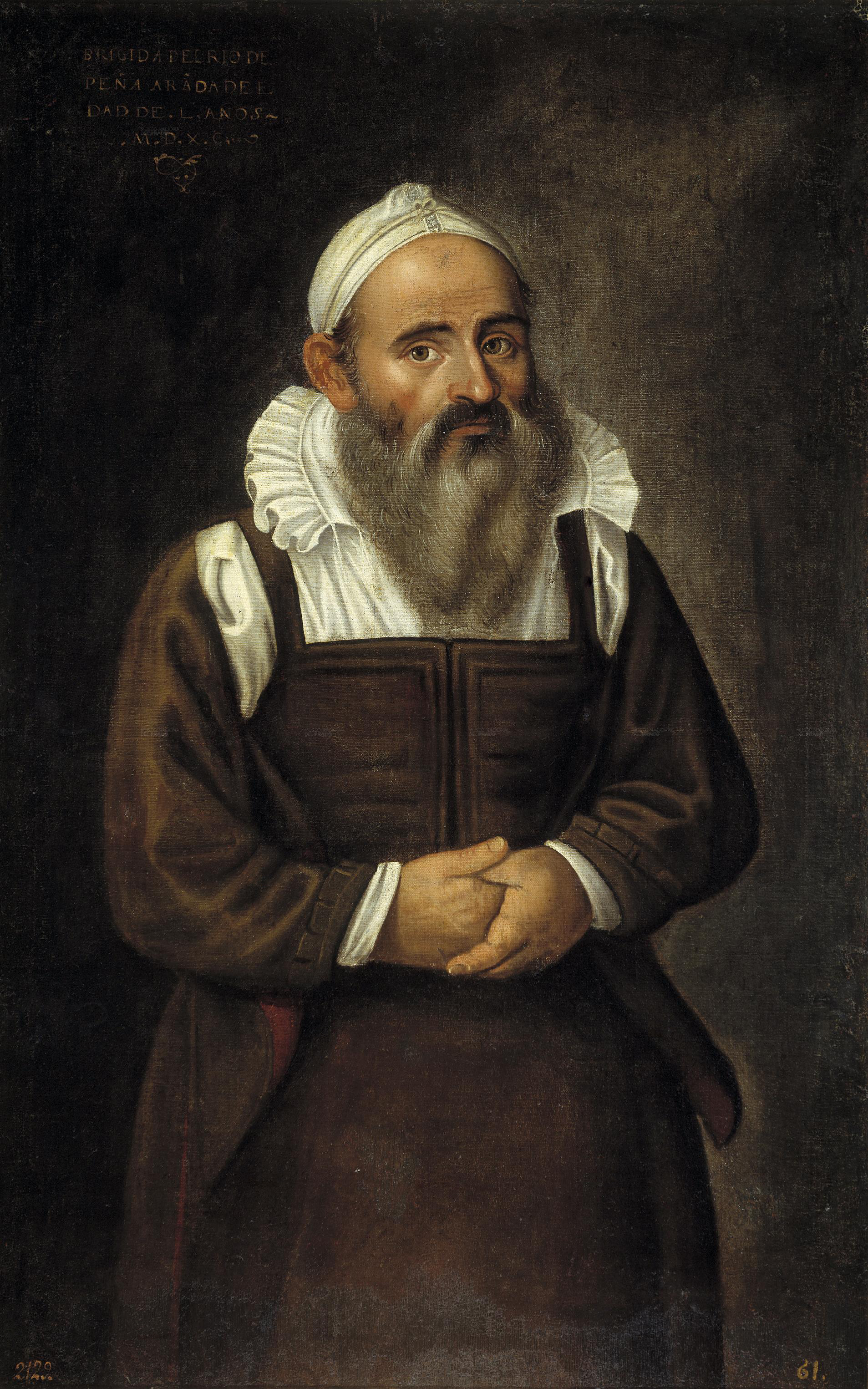 Retrato de Brígida del Río, la barbuda de Peñaranda.Juan Sánchez Cotán pinto a Brígida del Río a finales del siglo XVI en 1590 cuando ésta tenía 50 años.